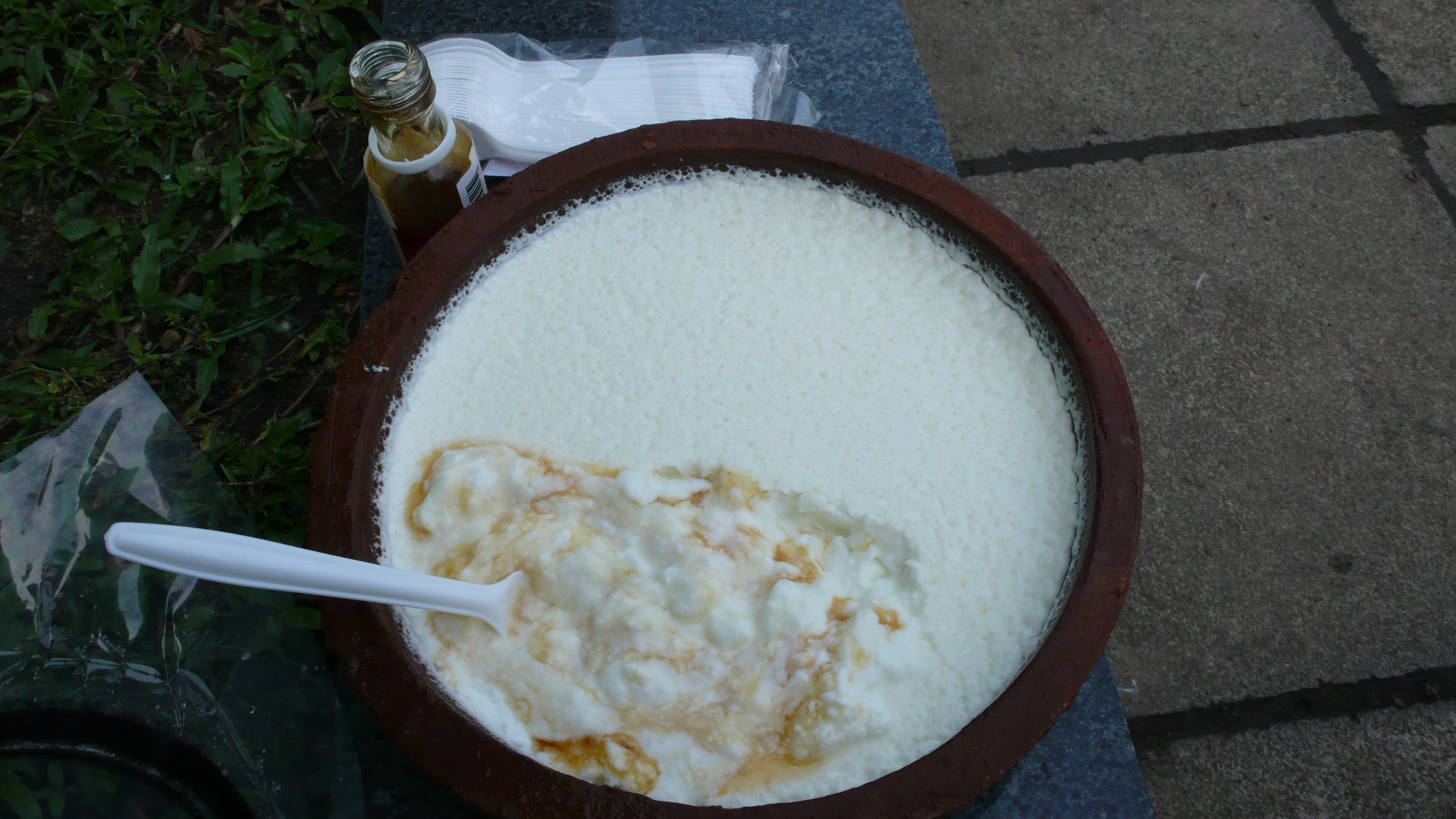 A pot of water buffalo curd with coconut honey.